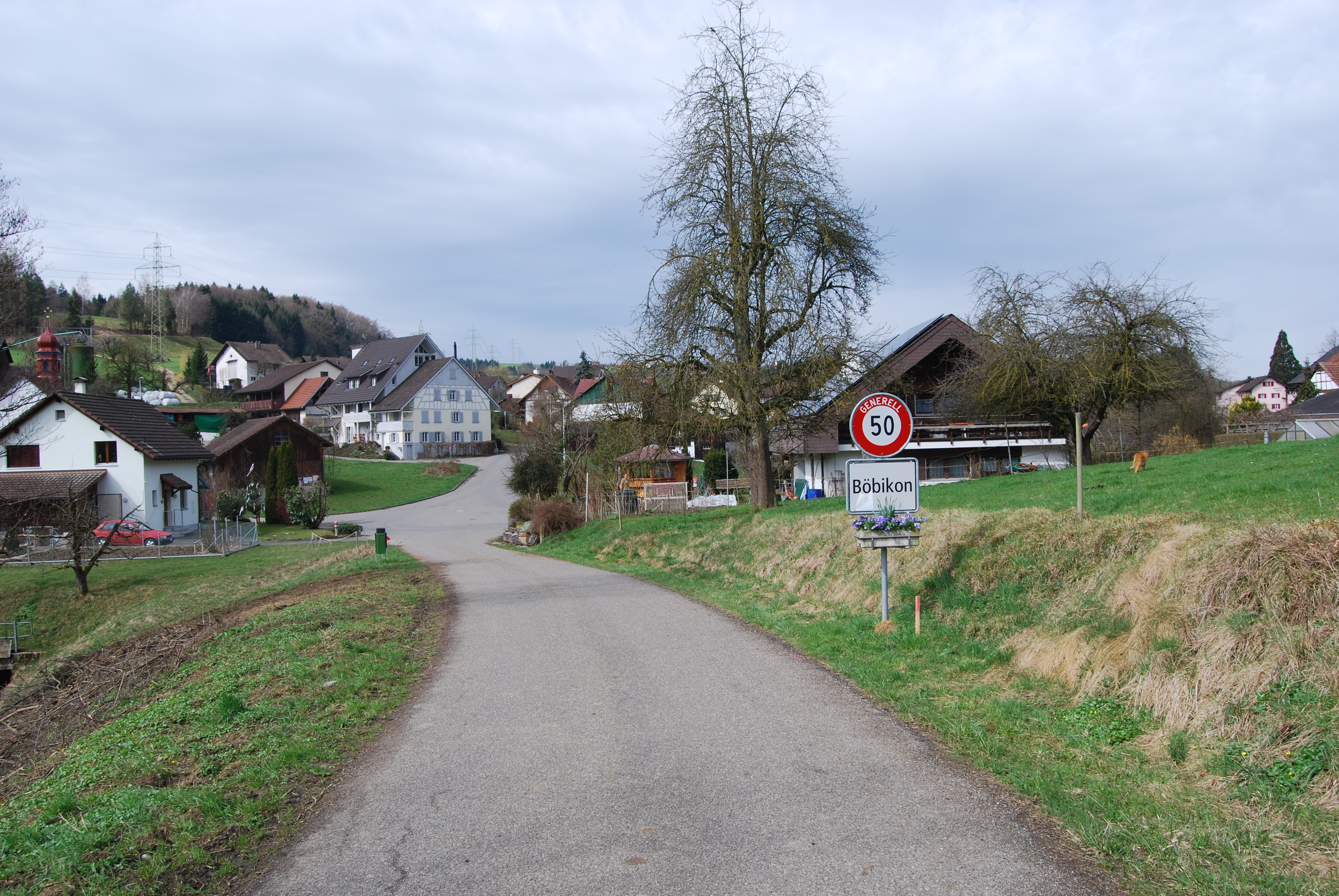 Böbikon, canton of Aargau, SwitzerlandEsperanto: Böbikon, Kantono Argovio, Svislando